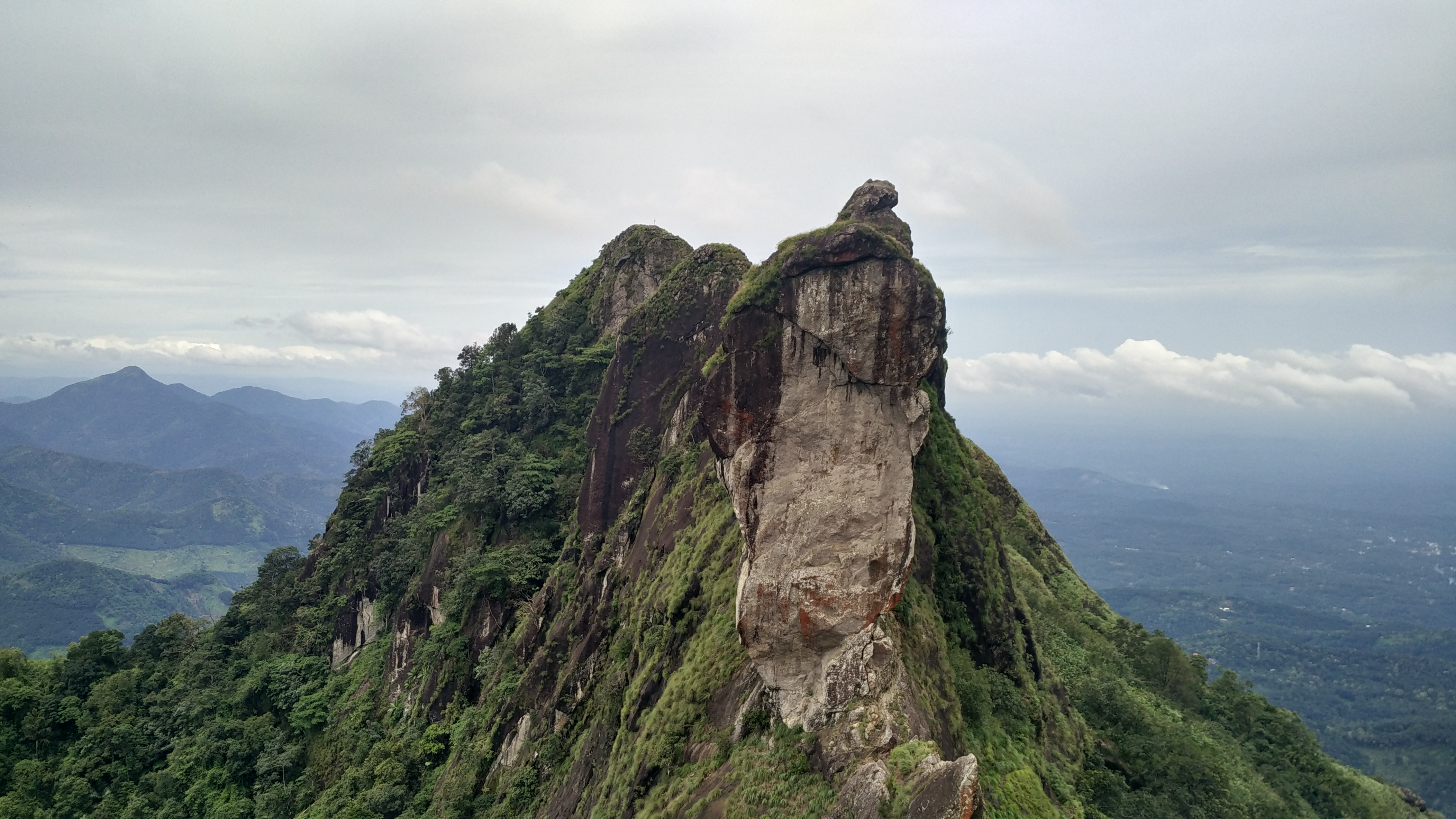 Illikkal kallu , beautiful stone hill at Kottayam, India